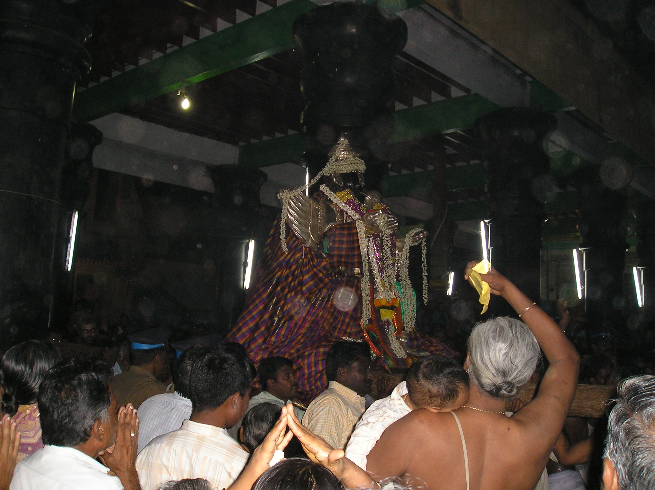 Hindu Temple, Kumbakonam